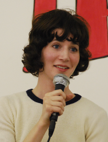 Miranda July read from her collection of short stories, No One Belongs Here More Than You, at Modern Times.